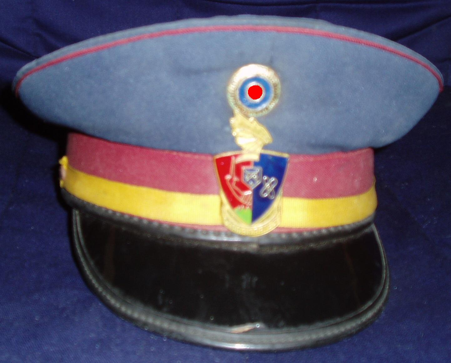 Military peaked cap